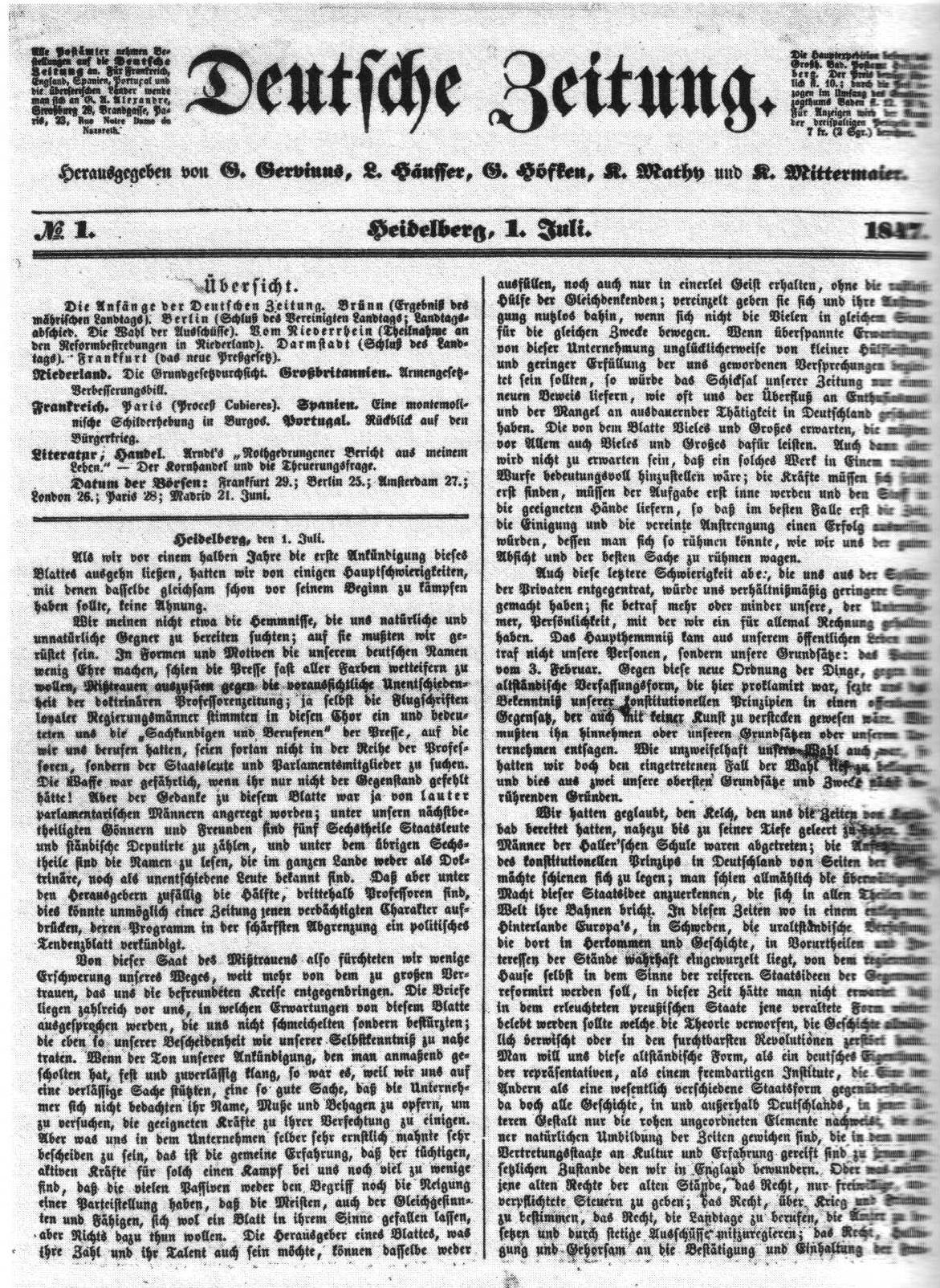 Deutsche Zeitung, a liberal daily issued in the German Confederation 1847 – 1850 (see Revolutions of 1848 in the German states); first issue of July 1, 1847.